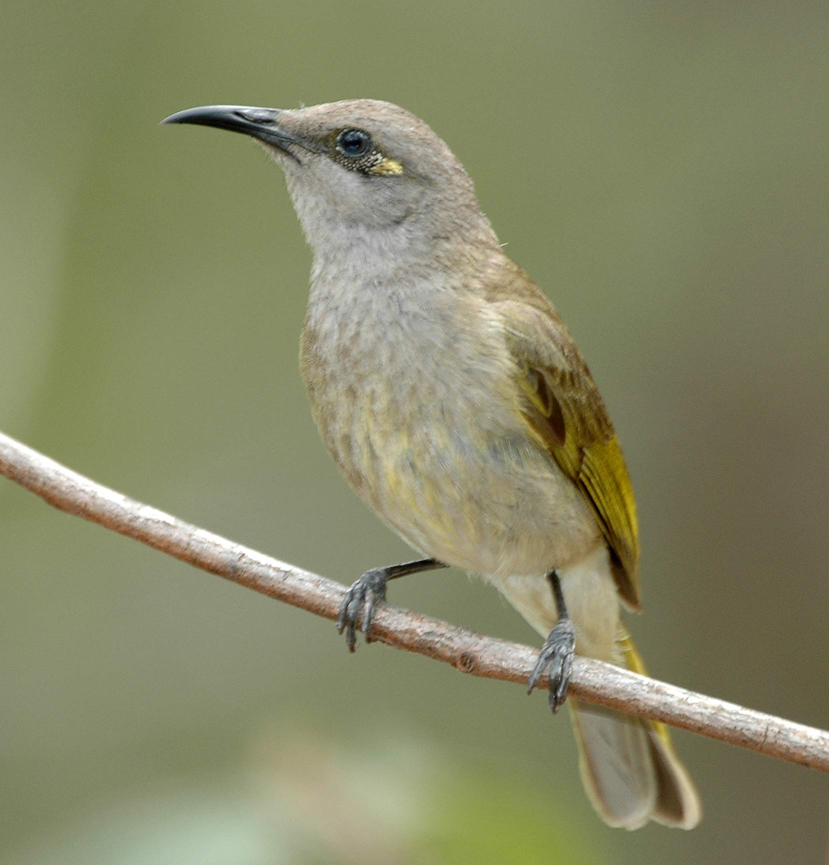 Brown Honeyeater (Lichmera indistincta) Kobble Creek, SE Queensland, Australia